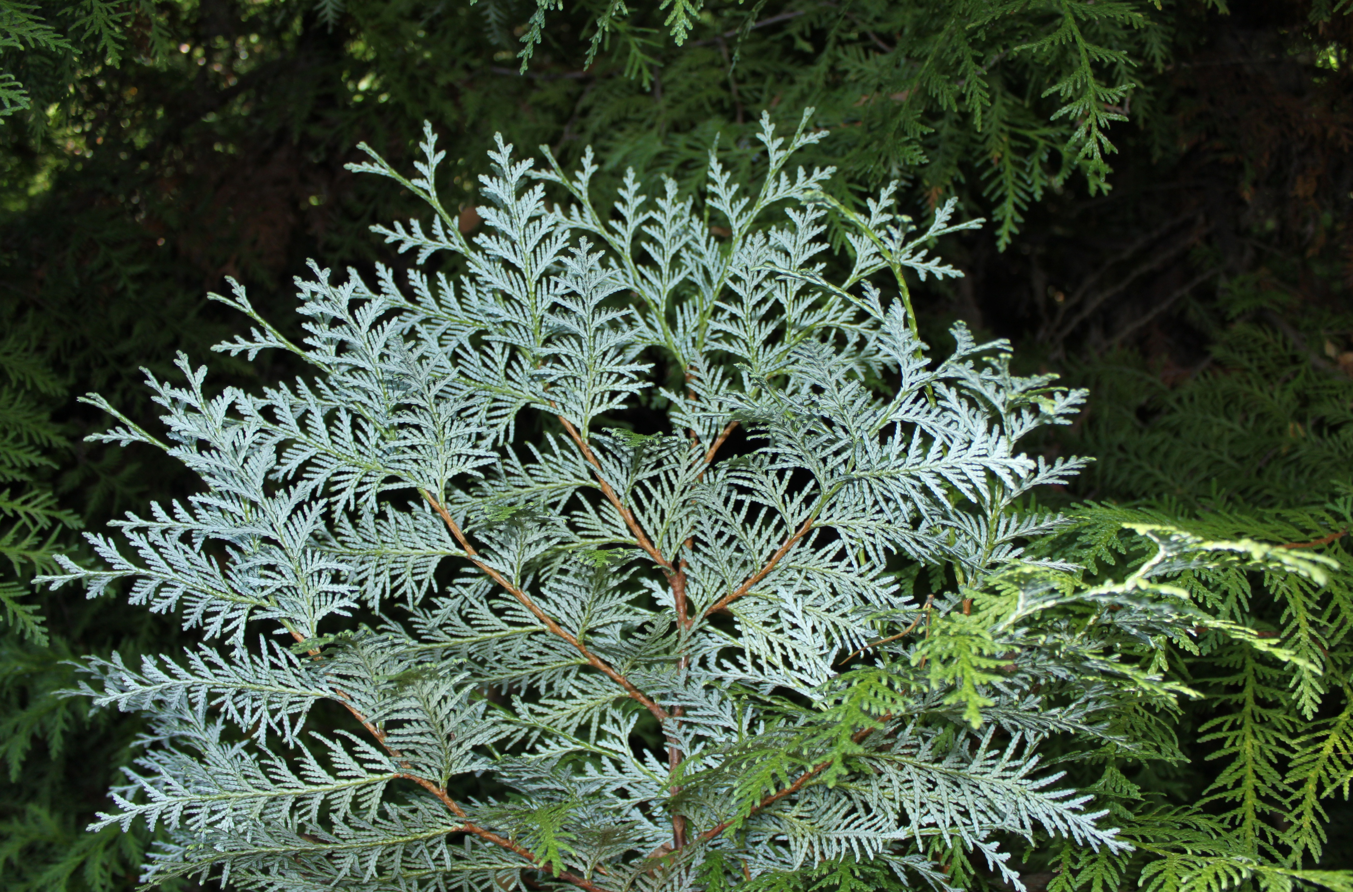 Thuja koraiensis foliage underside in Arboretum in PAN Botanical Garden in Warsaw, Poland